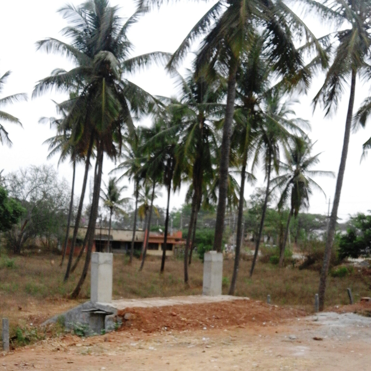 Mananthavady Road, Mysore district, Karnataka province, India.